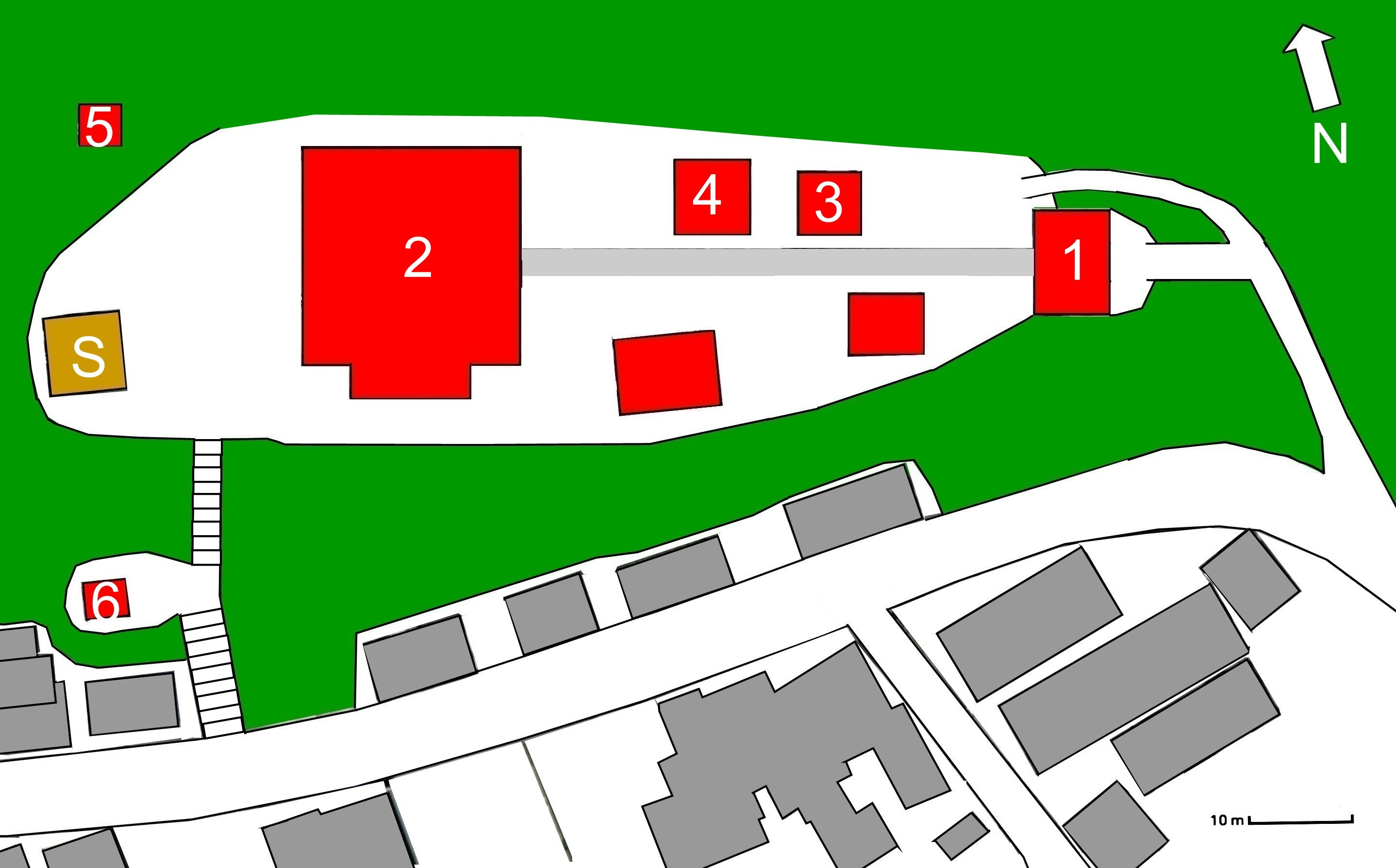 Layout of Nago-ji temple at Tateyama, Japan